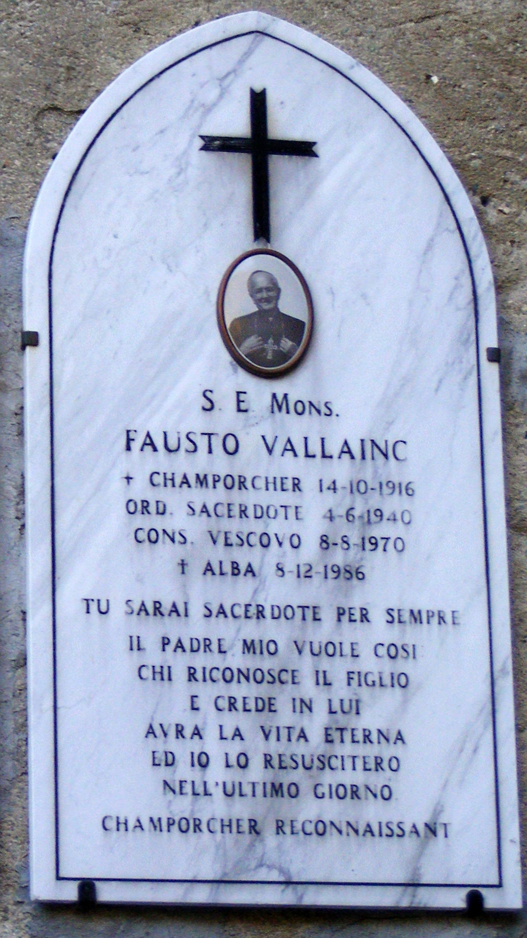 Commemorative plaque for Angelo Fausto Vallainc (Champorcher, AO, Italy)